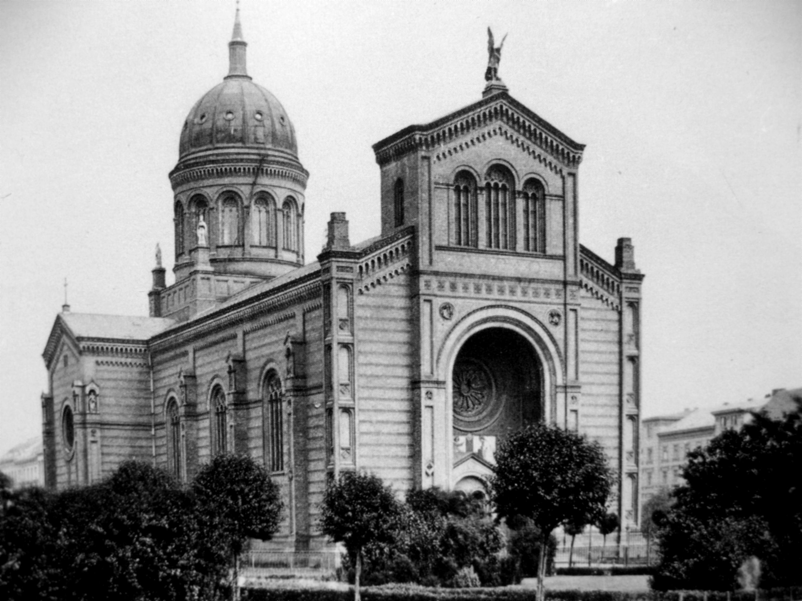 The Saint Michael church (Sankt Michaelskirche) in Berlin